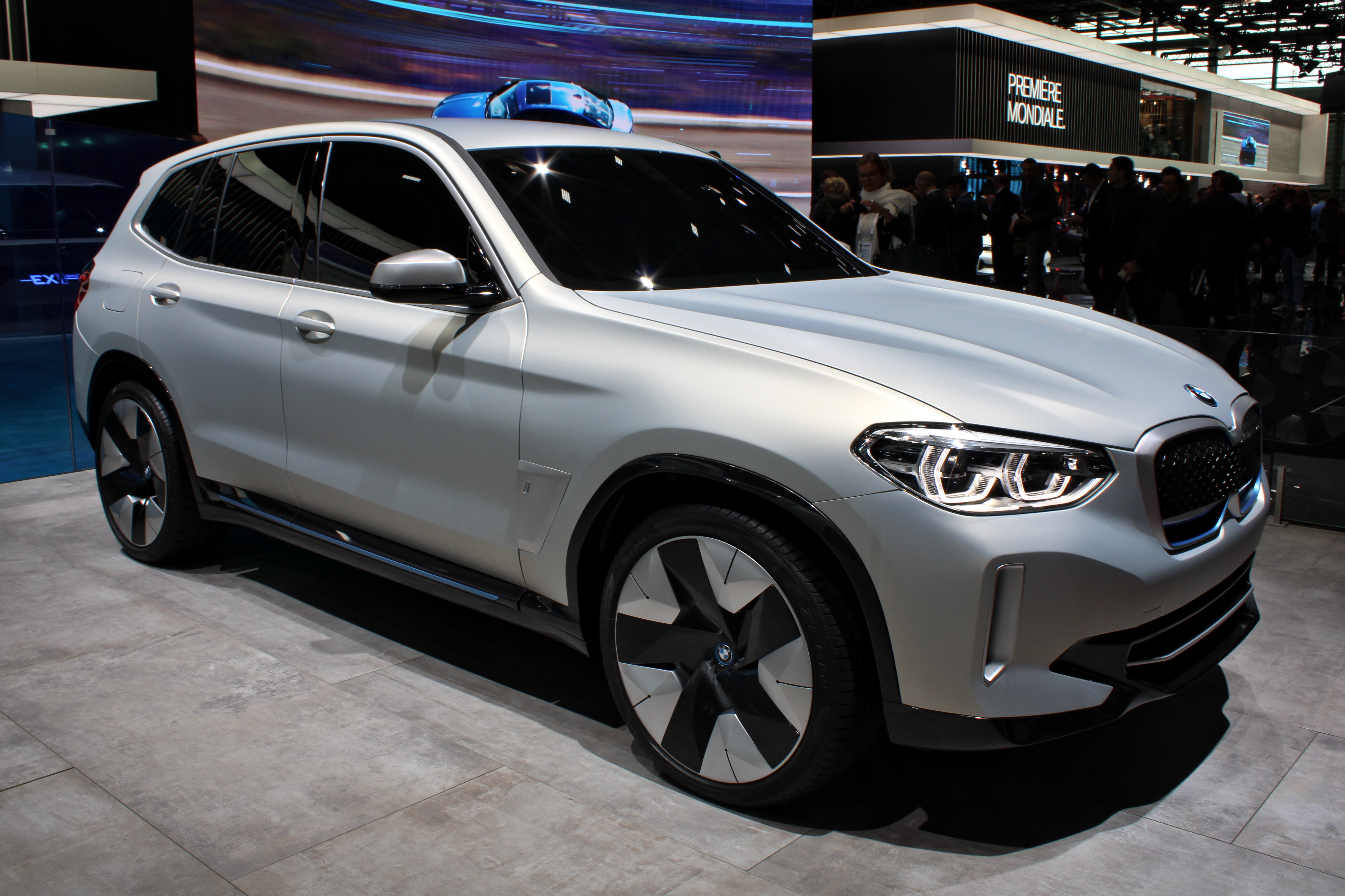 BMW iX3 at Paris Motor Show 2018